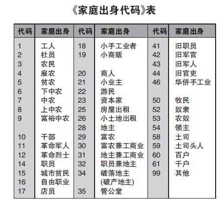 中国国家标准《家庭出身代码》（GB 4765-84）本标准规定了家庭出身的代码，它适用于使用信息处理系统进行人事档案管理、社会调查、公安户籍管理等方面工作时信息处理系统之间的信息交换。 The now defunct Guobiao Standard 4765-1984, was a set of code assigned to different "family backgrounds", a political designation.